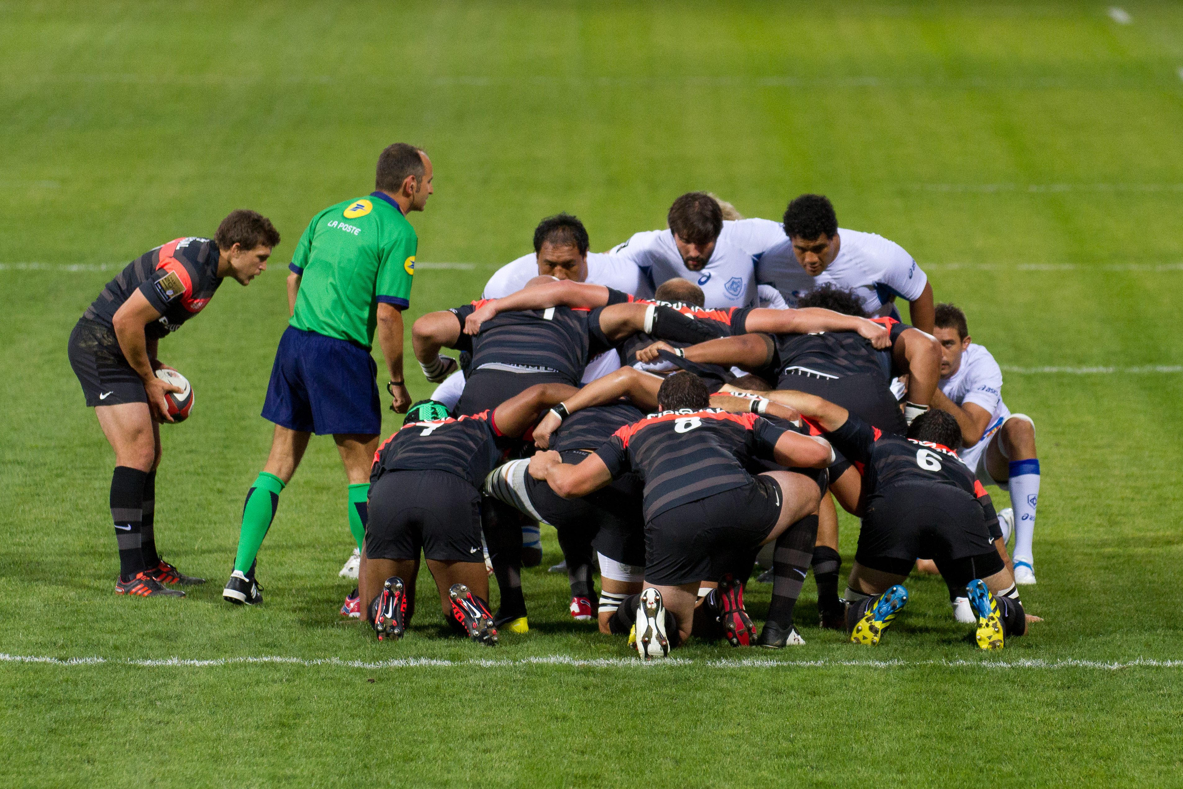 Top 14 — 17 August 2012, Stade Ernest-Wallon. Match between: Stade toulousain — Castres olympique